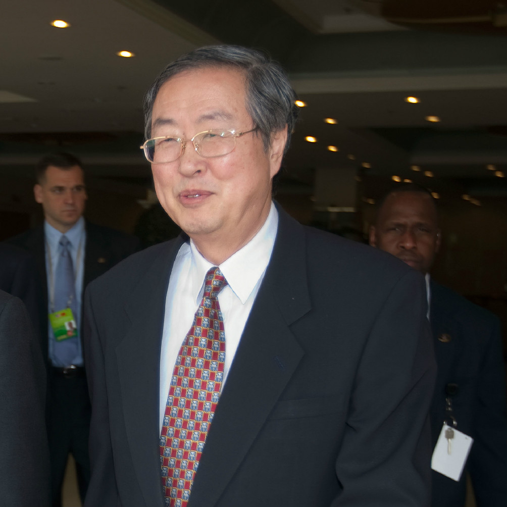 Secretary Geithner and People's Bank of China Governor Zhou Xiaochuan, following a working lunch on May 23, 2010 in Beijing.